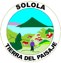 Coat of arms of this department of Guatemala Permission